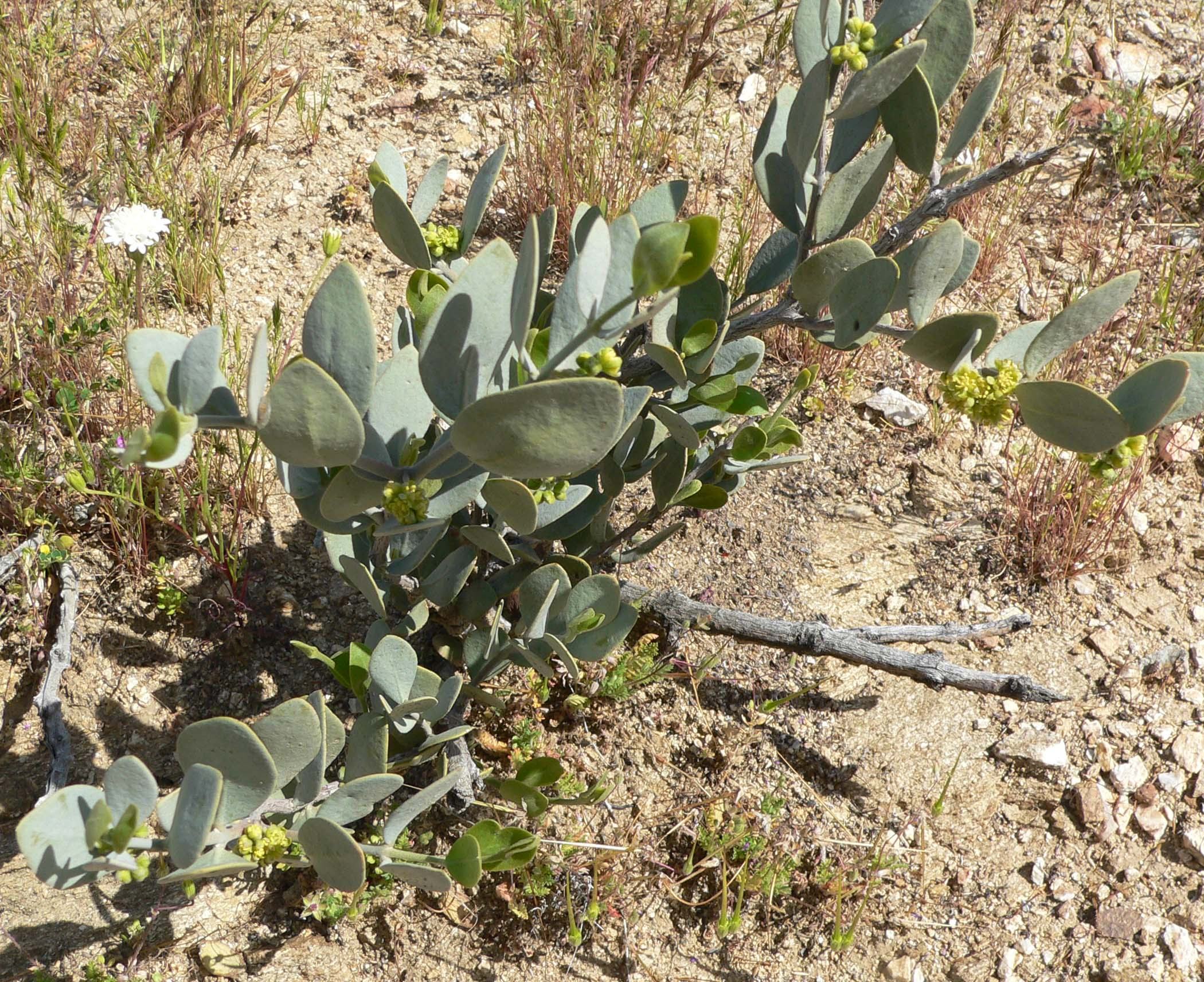 Photo of Simmondsia chinensis (jojoba) in Palm Canyon, California